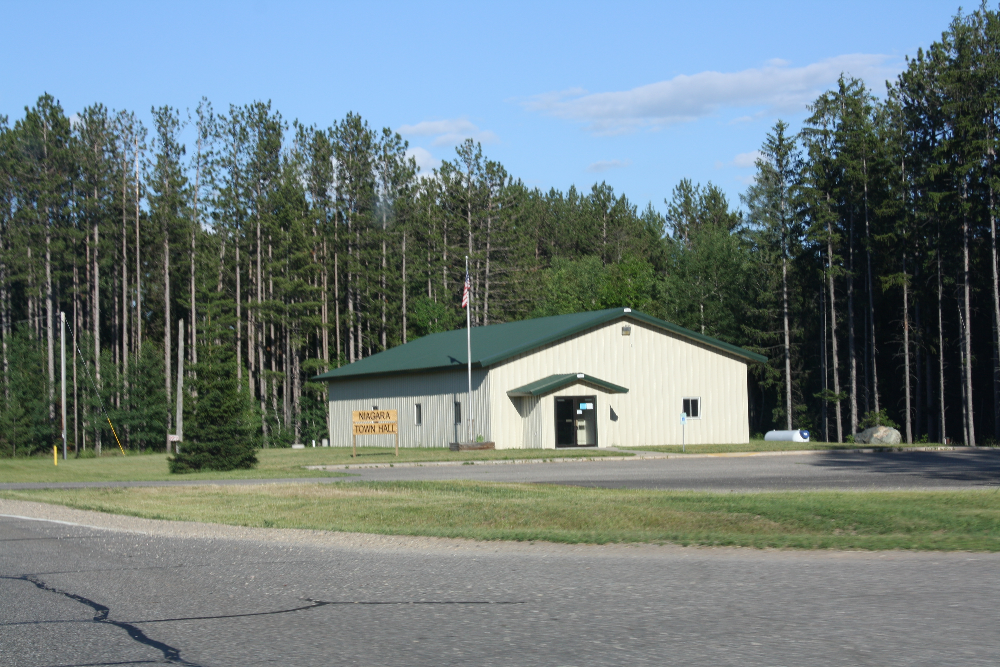 The town hall for Niagara (town), Wisconsin along U.S. Route 8.